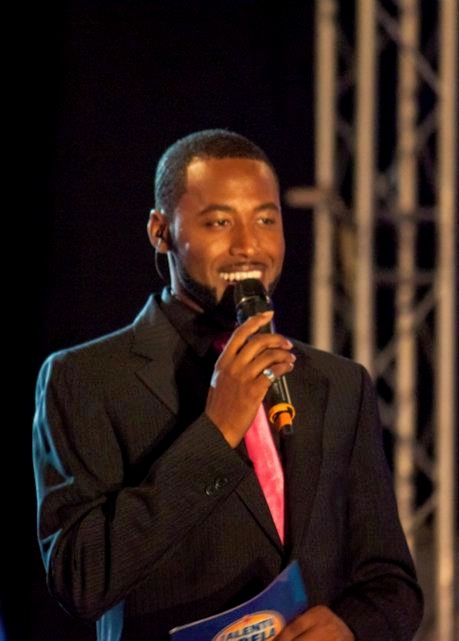 Gala Talentu STrela